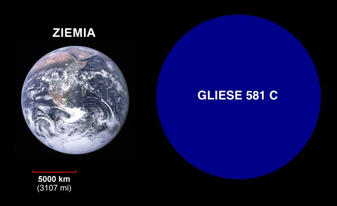 Polish version of Image:Gliese581cEarthComparison2.png